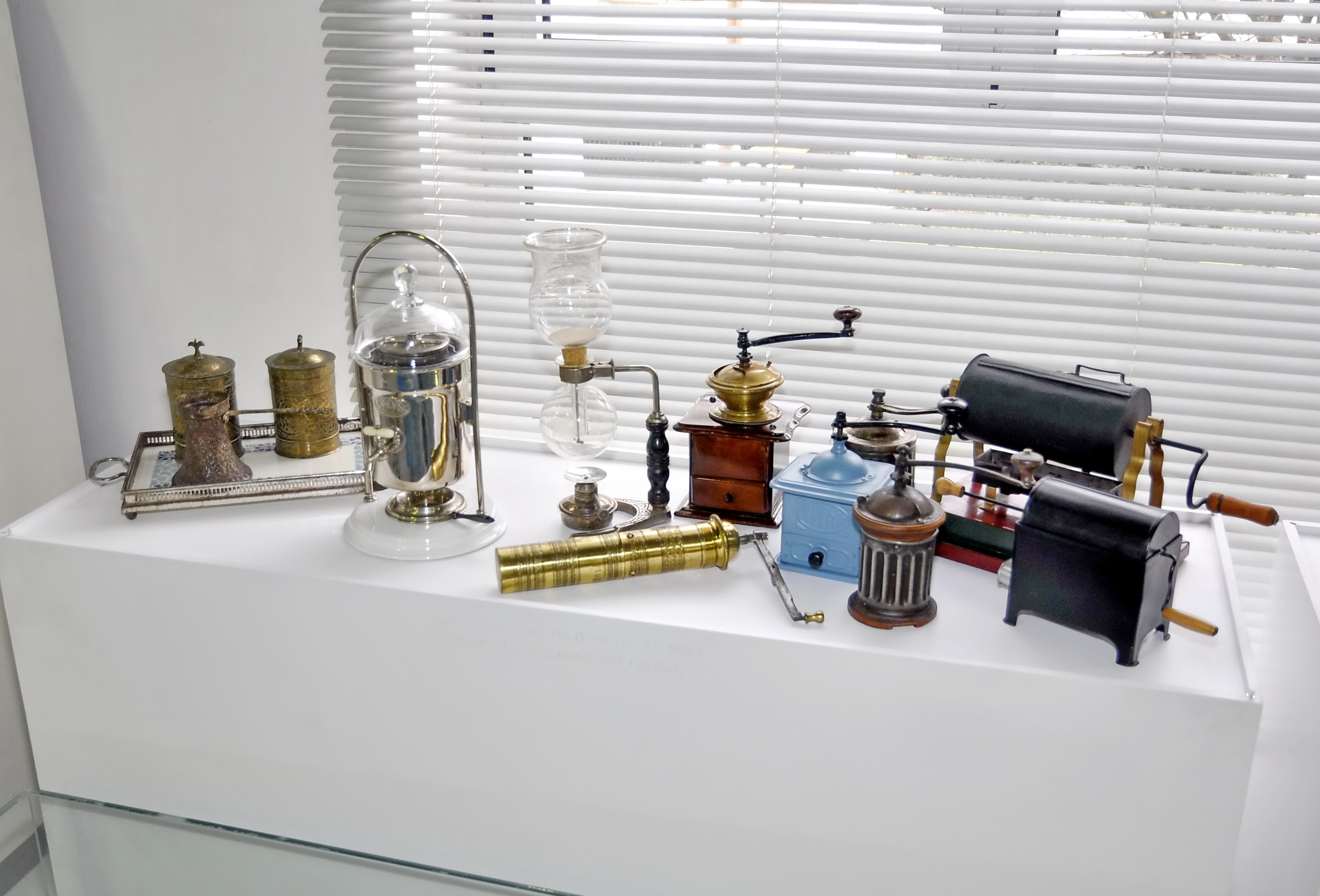 Group of coffee grinders from the end of 19th century and begining of 20th century. Now they are located in Museum of Science and Technology in Belgrade.